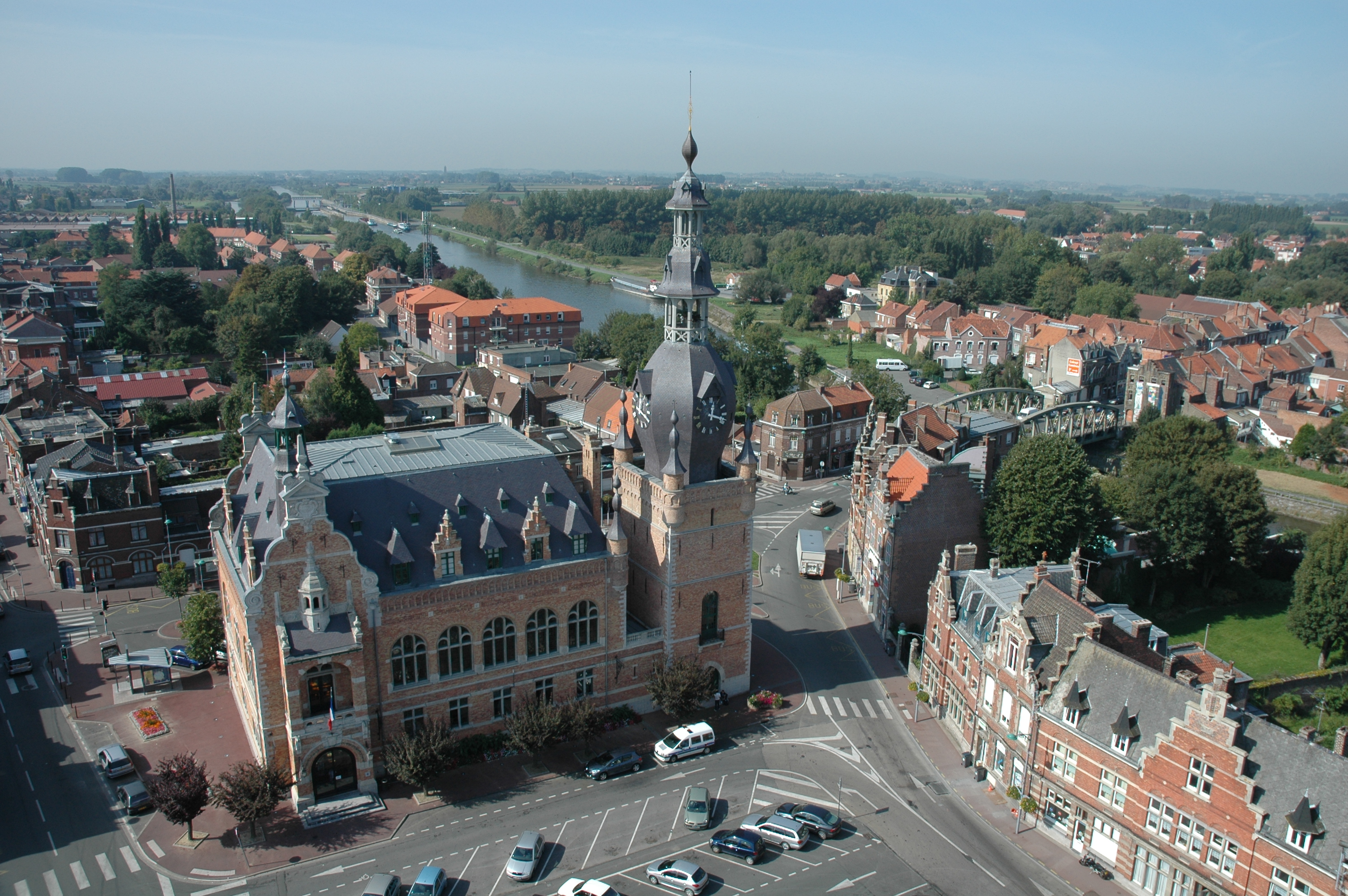 The Town hall and belfry of Comines (Nord, France), viewed from the Saint-Chrysole church; in background, the bridge over the Lys on the border between France and Belgium, to the village of Comines (Belgium).